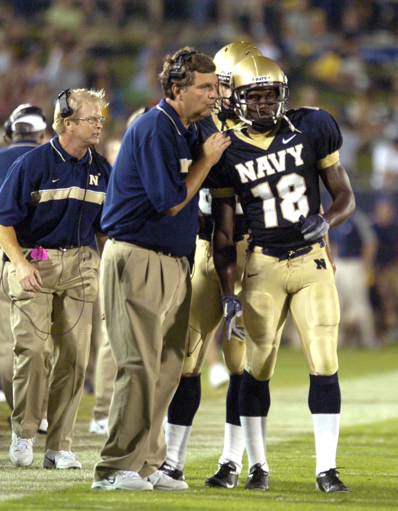 Annapolis, Md. (Sept. 4, 2004) – U.S. Naval Academy football team head coach Paul Johnson sends the teams next play in with Midshipman 1st Class Lionel Wesley. The Midshipman defeated the Duke Blue Devils 27-12 in the season opener for both teams. Navy, which led the nation in rushing last season, gained 301 yards on the ground and had 430 yards of total offense at Navy-Marine Corps Memorial Stadium. U.S. Navy photo by Damon J. Moritz (RELEASED)